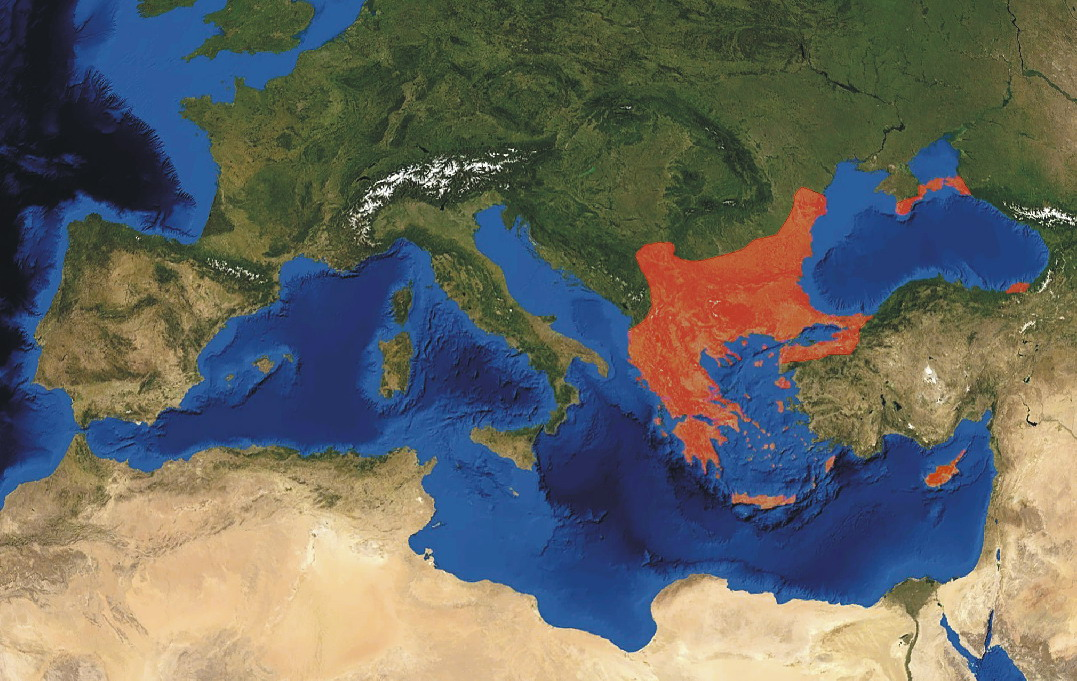 Territories of the Byzantine empire, ca. 1081